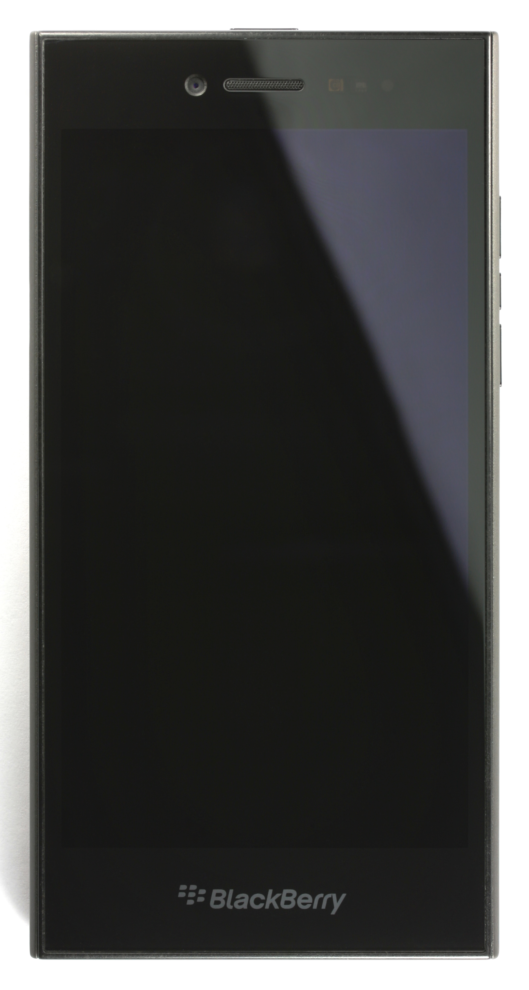 The front side of a BlackBerry Leap